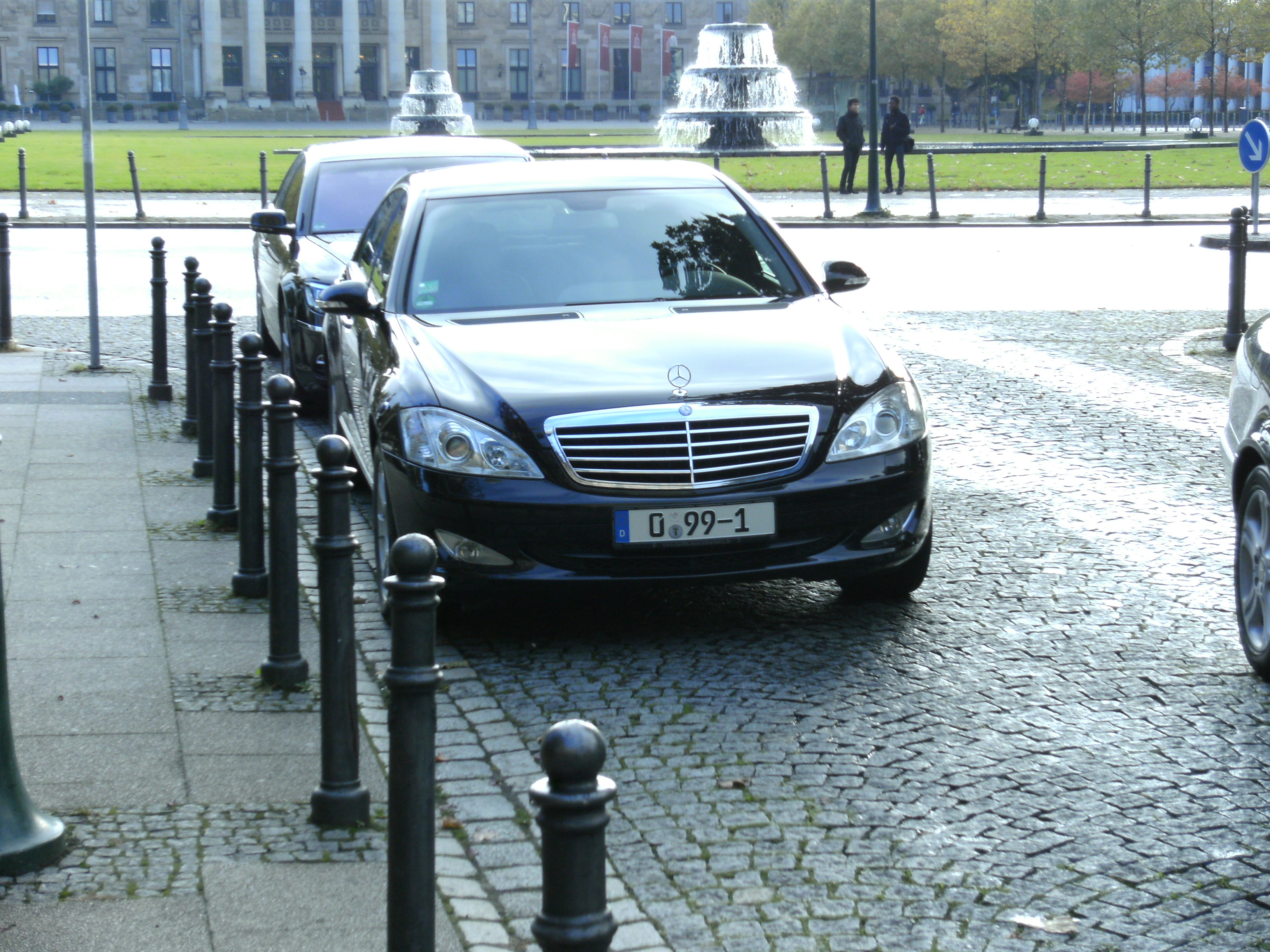 Car of the Nigerian Ambassador in Germany, seen near Wiesbaden Casino (background)